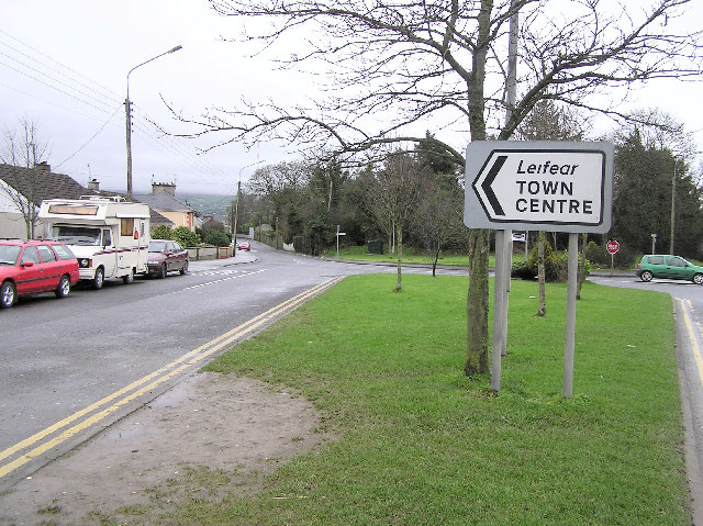 Lifford, County Donegal, Ireland